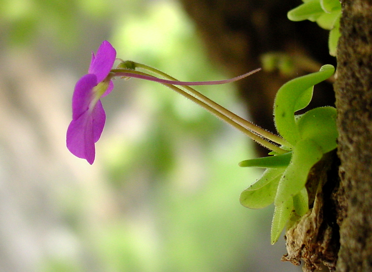 Pinguicula elizabethiae in situ at Toliman Canyon, Hidalgo state, Mexico